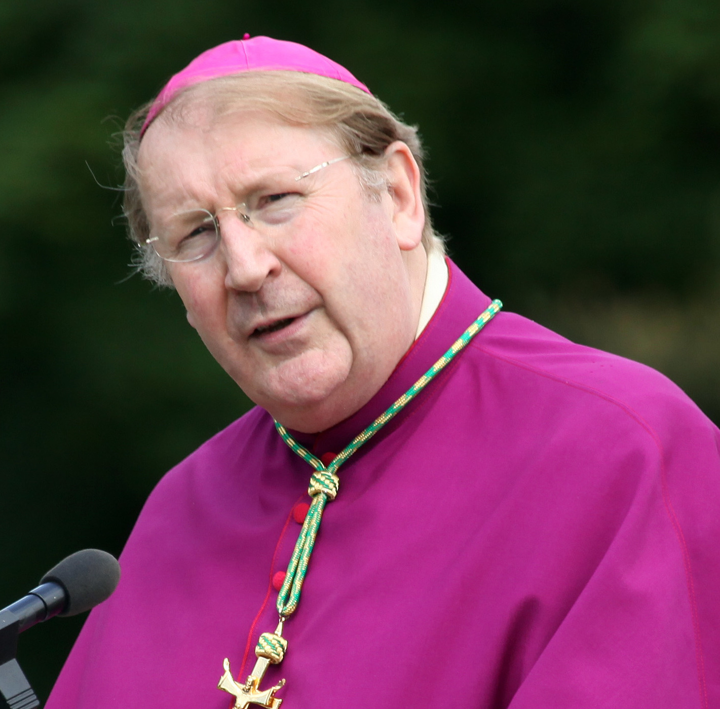 The Right Reverend Michael Langrish during the National Pilgrimage to Walsingham, 2012